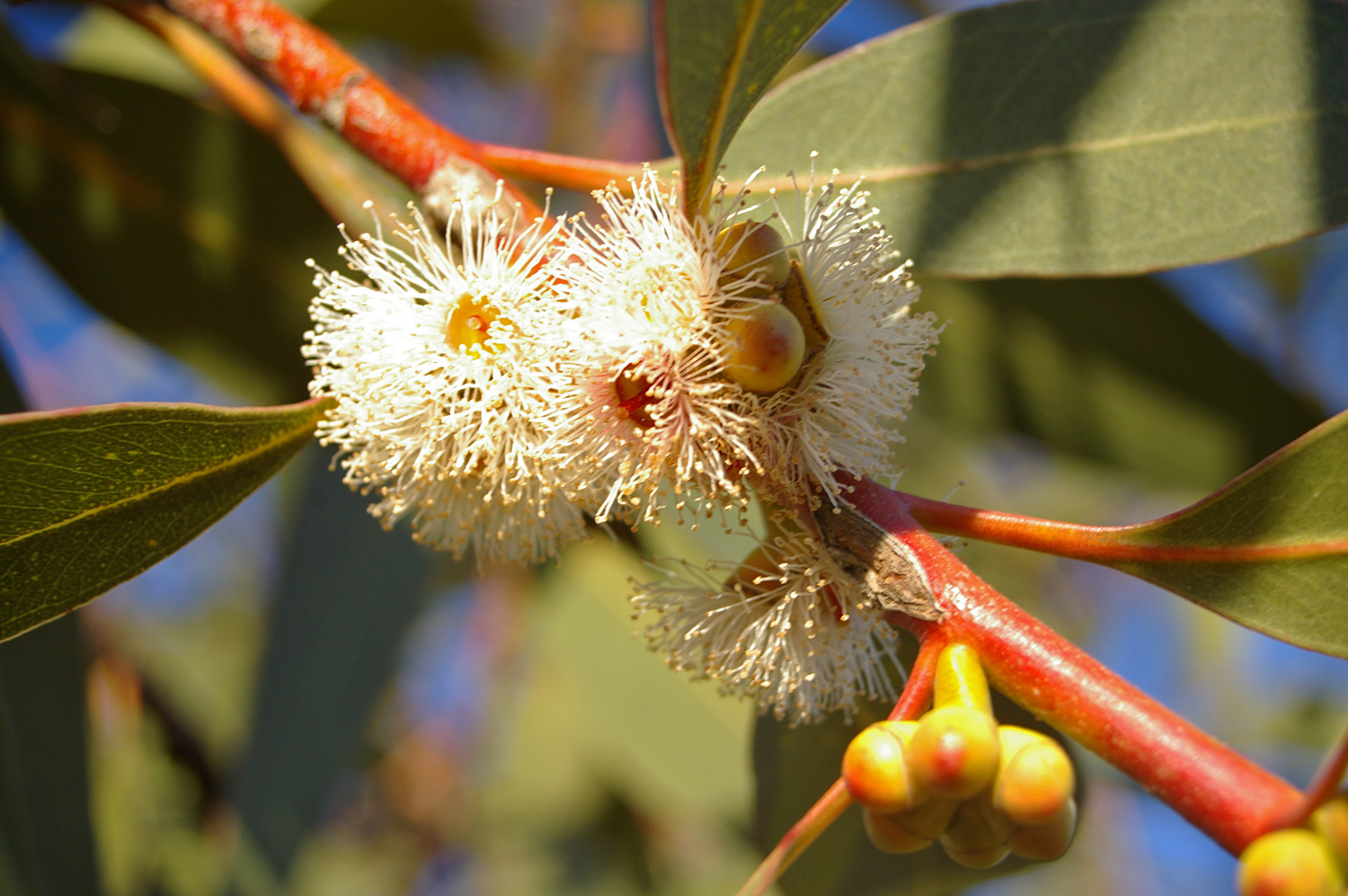 Eucalyptus dives Because this photograph concerns privacy since this was taken on a private property, only an approximate location is provided: Wagga Wagga, New South Wales, Australia